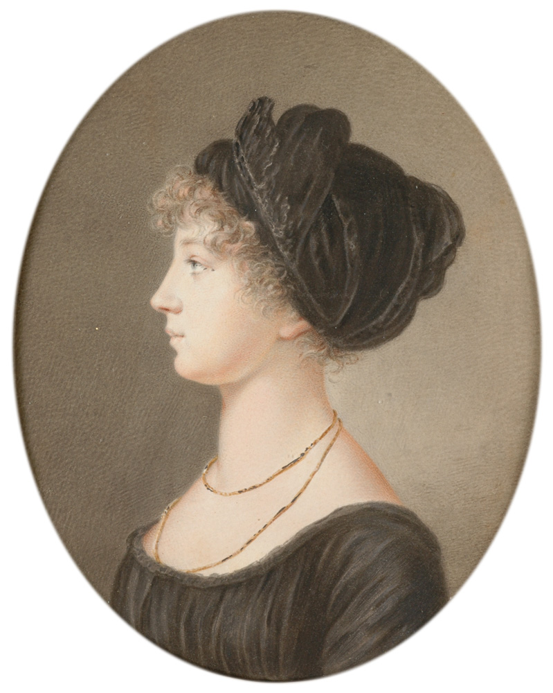 Portrait of Elizabeth Alexeievna (Louise of Baden) for the widow empress